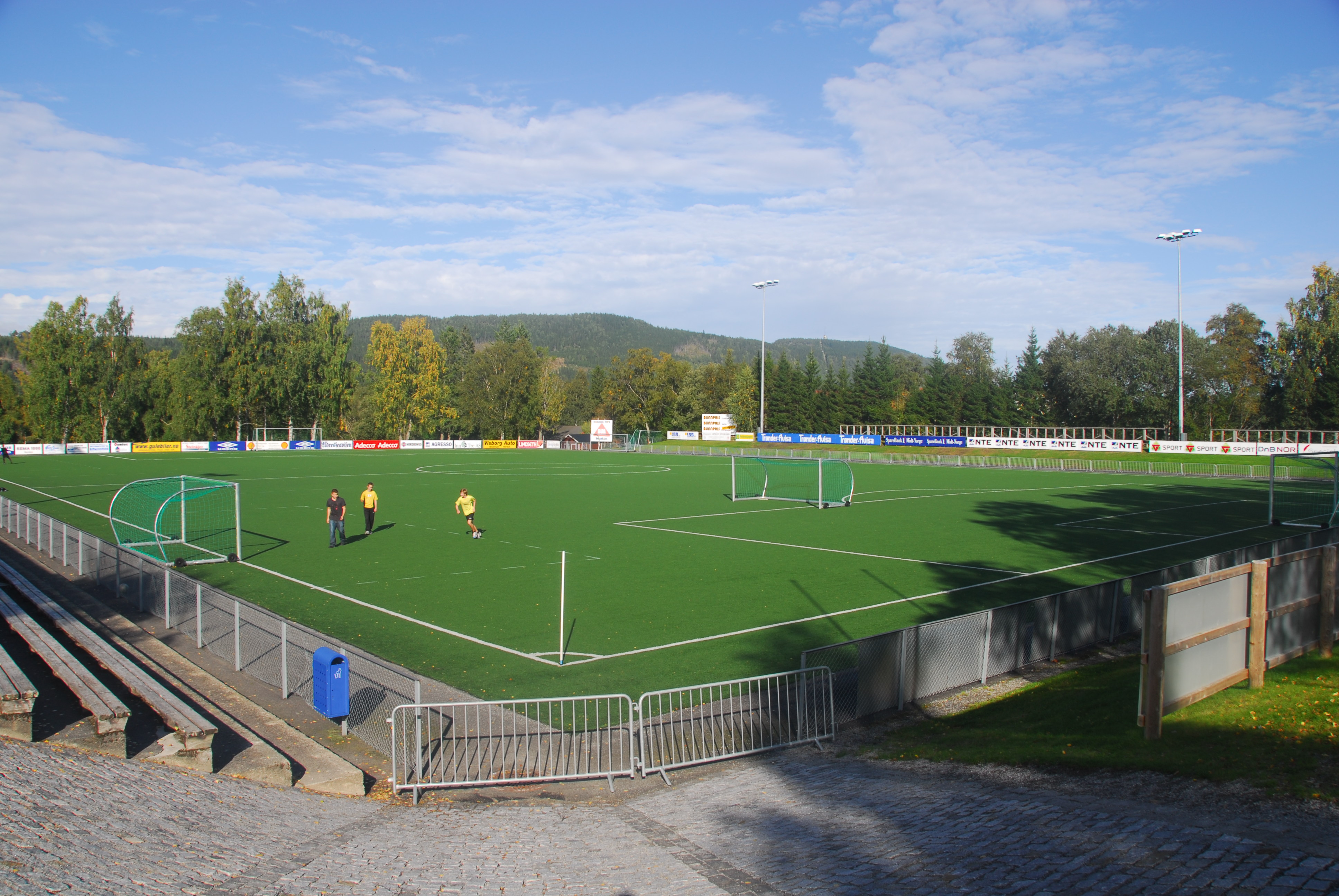 Gudlbergaunet stadion, the home ground of Steinkjer FK in Steinkjer, Norway